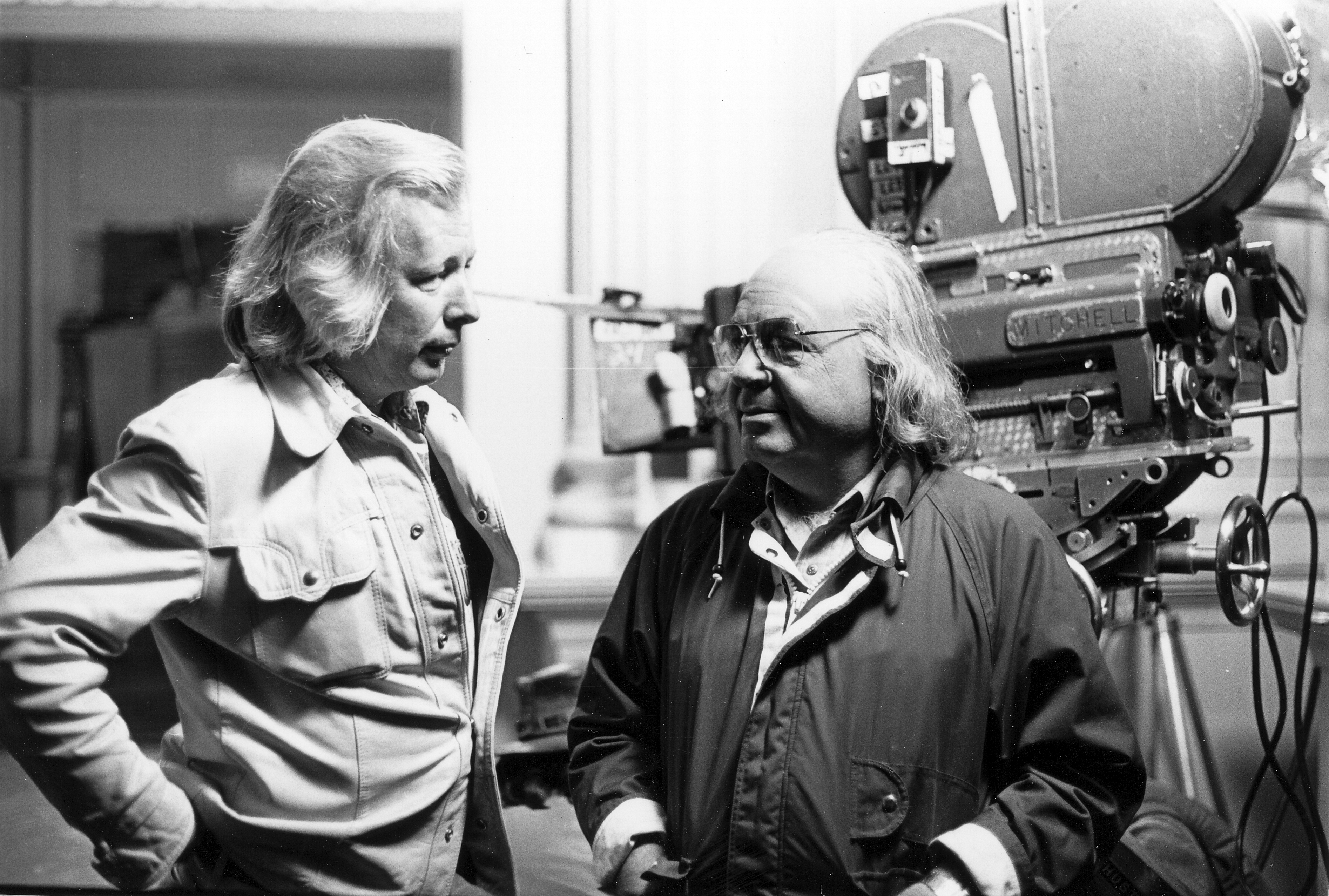 Tom Bosley filming TV movie The Rebels.